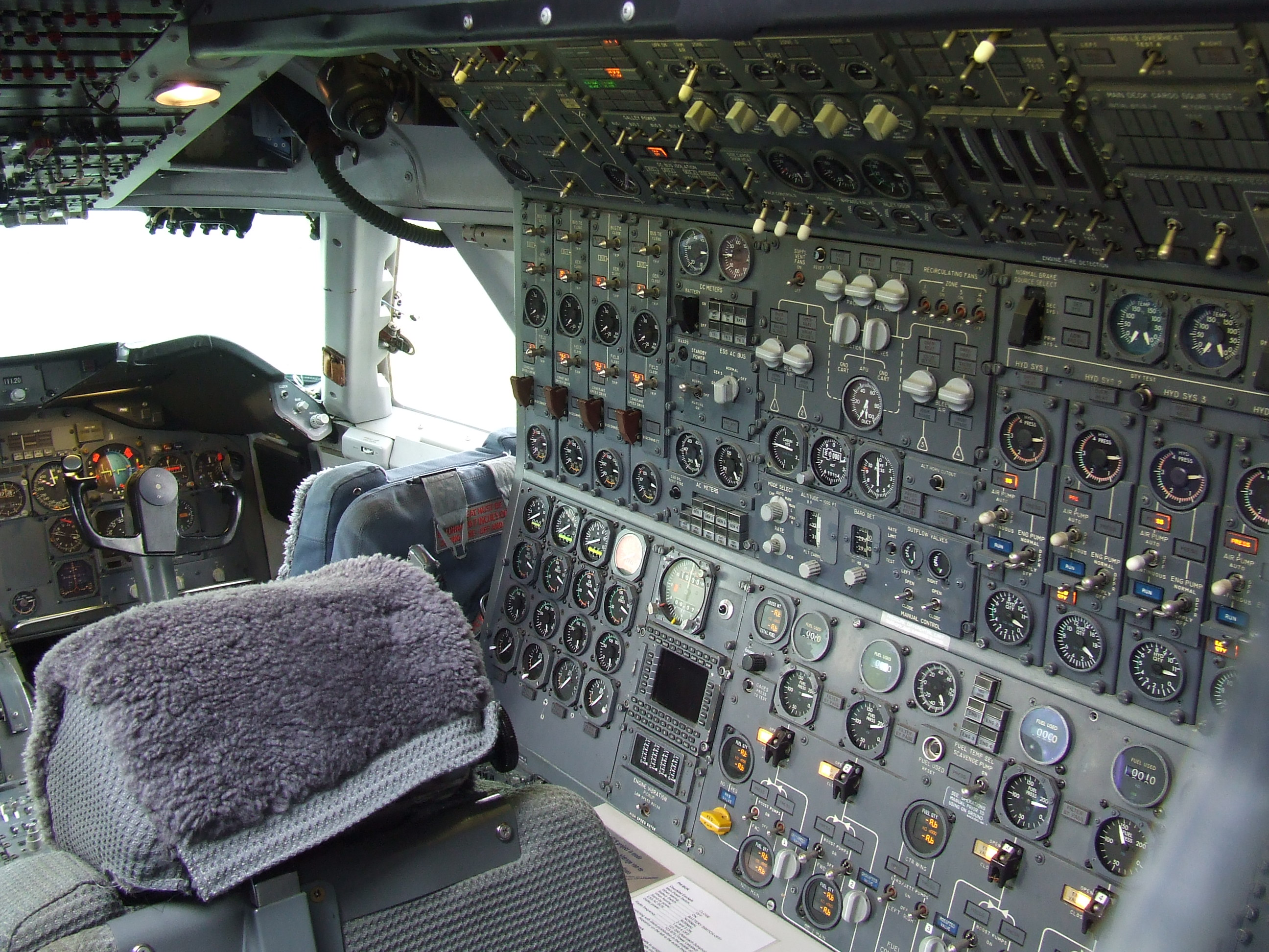 Flight engineer sation of Boeing 747-200 (PH-BUK) "Louis Bleriot" at Aviodrome Lelystad